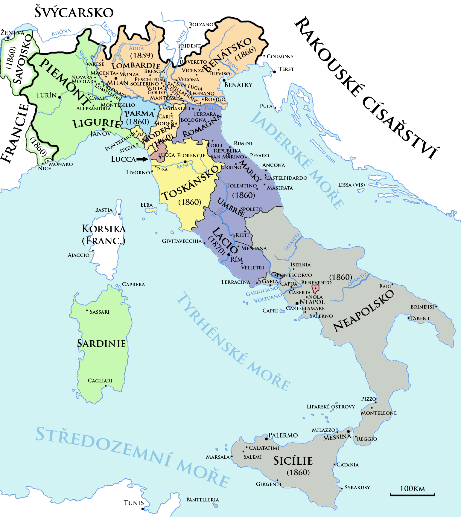 Political situation in Italy around 1816. In Czech language.